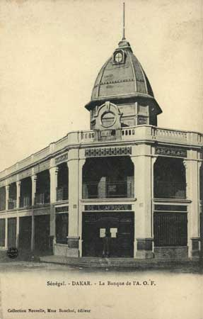 Anon. postcard image, over 100 years old, Dakar Senegal under French Colonial Government.